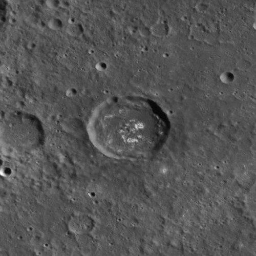 Wergeland crater, on Mercury. MESSENGER Wide Angle Camera mosaic. Image is approximately 164 km wide.